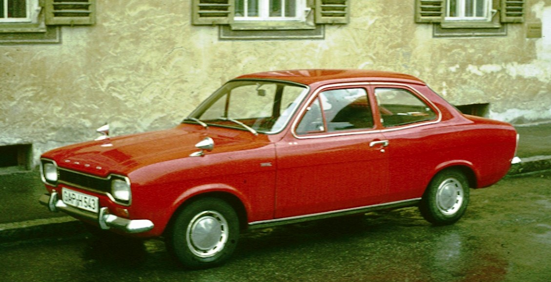 Early Ford Escort sedan in profile in Upper Bavaria